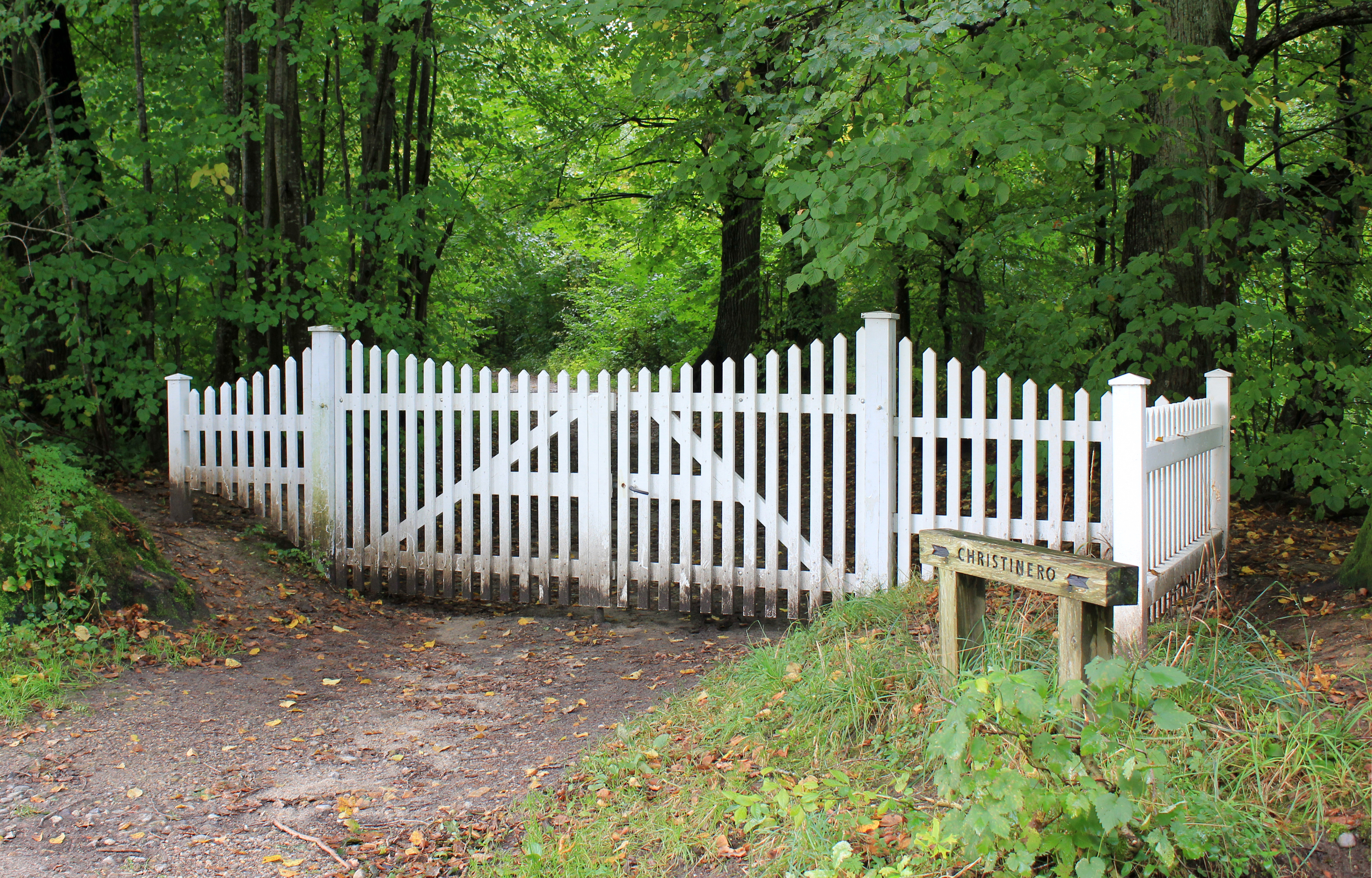 Pavilion in Christinero a romantic garden facility created in the end of the 1700s by Christina Friederica von Holsteiner near Christiansfeld, Denmark.